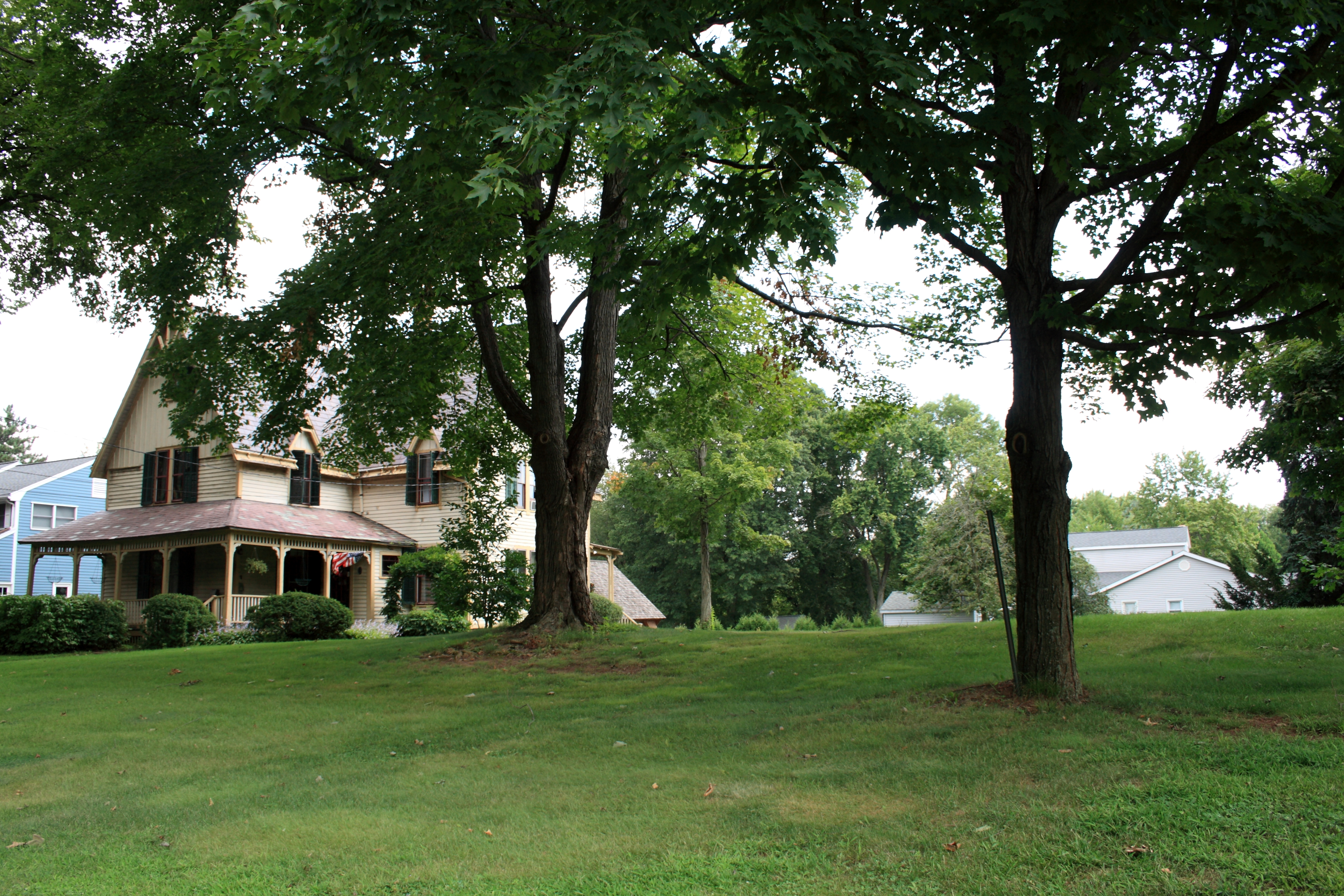 Part of the Newington Junction South Historic District, a Registered Historic Place in Newington, Connecticut